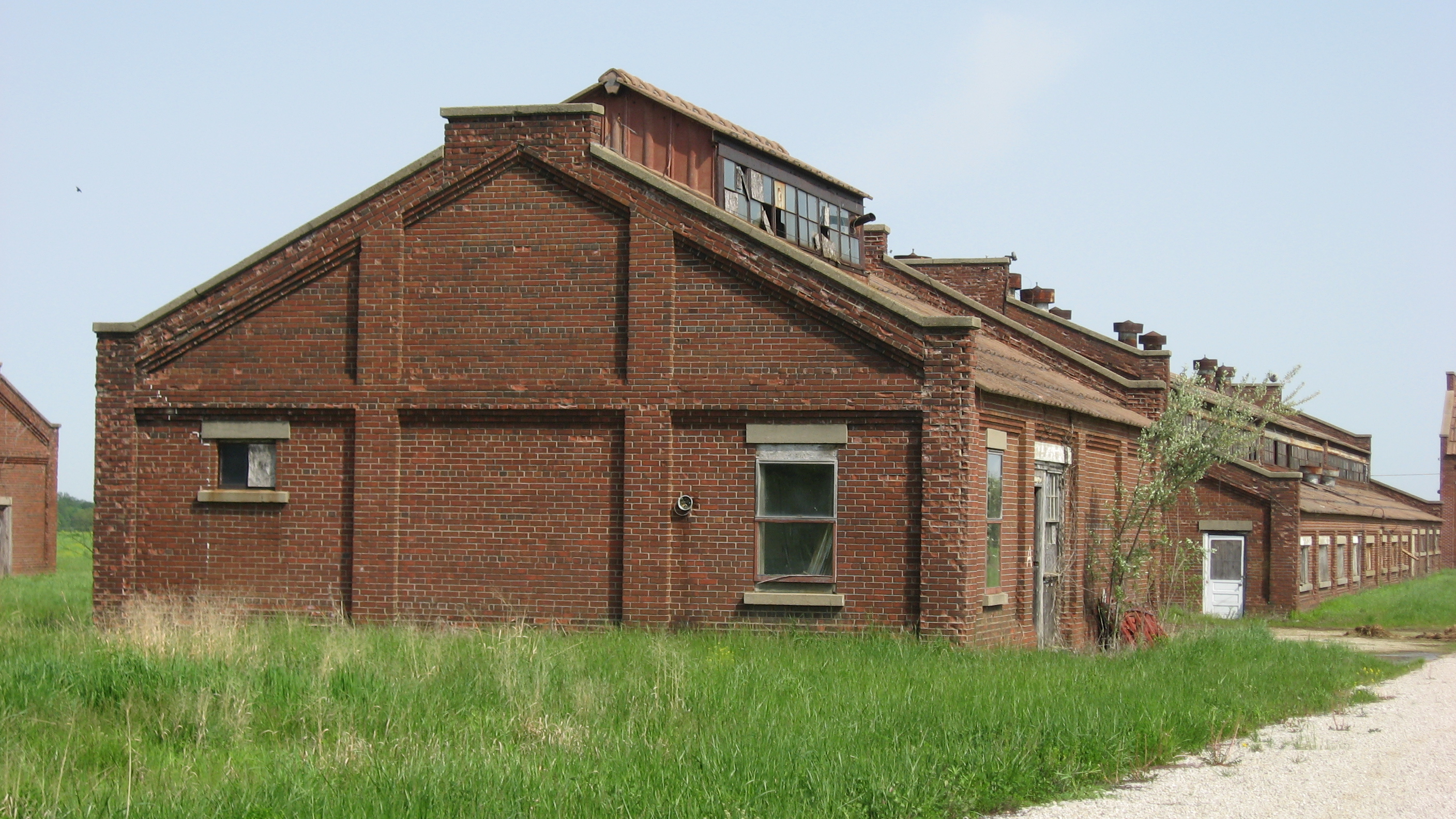 Buildings at the Enoco Coal Mine, located on the northern side of Grundman Rd. in Washington Township, Knox County, Indiana, United States. Located about 1.5 miles south of Bruceville, the buildings were constructed in 1941; along with other parts of the mine complex, they are listed on the National Register of Historic Places.